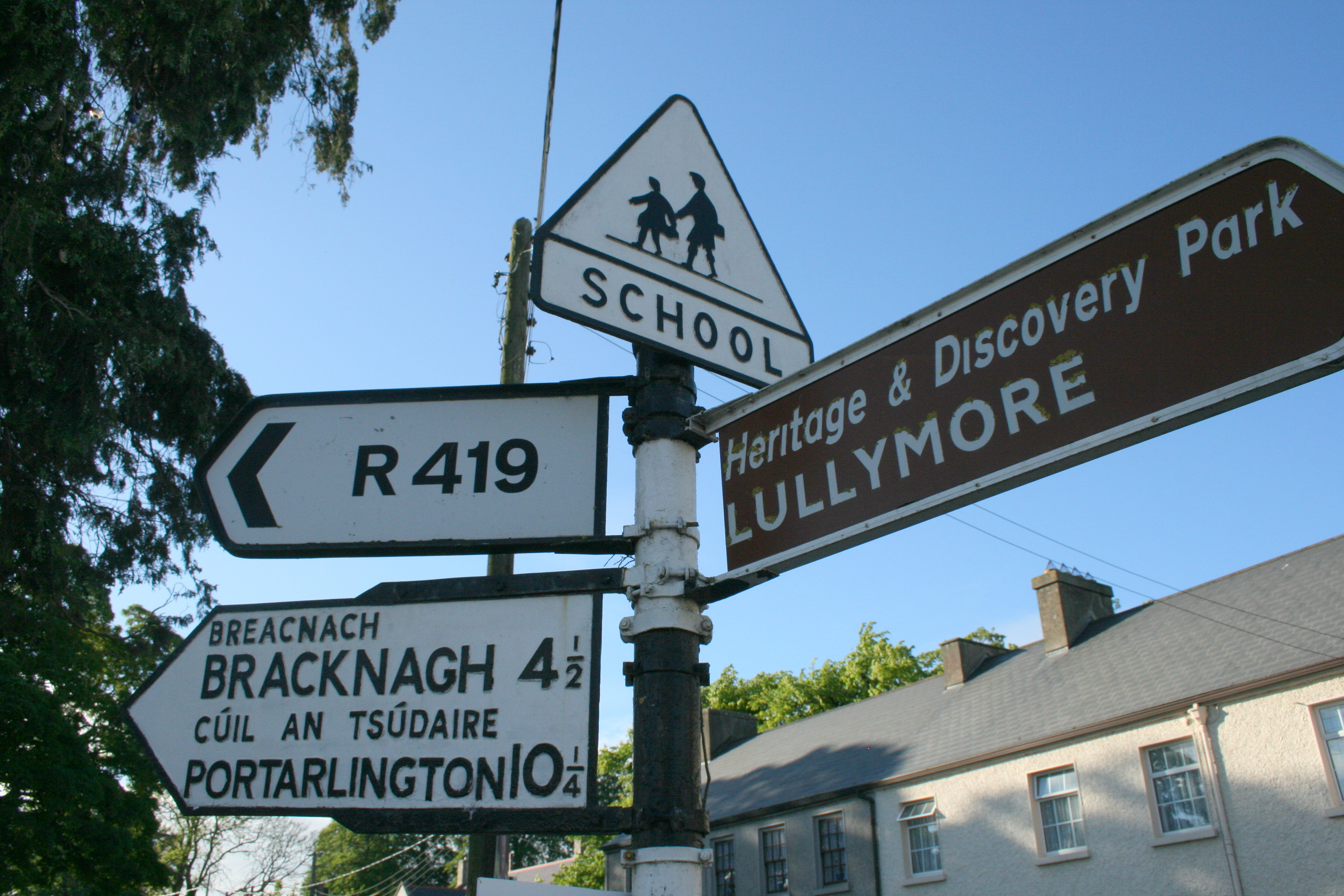 Old school warning sign in Rathangan, County Kildare